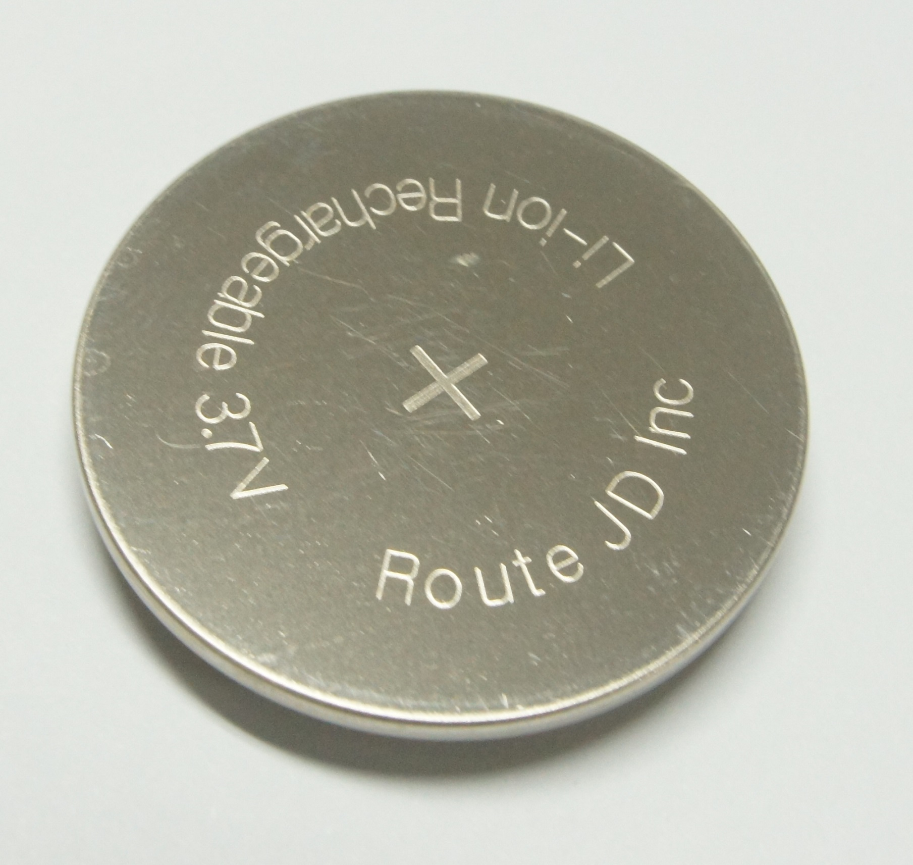 RouteJD's Coin Type Lithium-ion Rechargeable Battery _for Garmin GPS watch_ 3.7V_85mAh